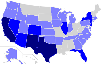 Spanish in USA More than 28% speak Spanish at home, and more than 35% are Hispanic. More than 12.2% speak Spanish at home. (U.S. average) More than 3% speak Spanish at home. Source: US bureau census, 2006